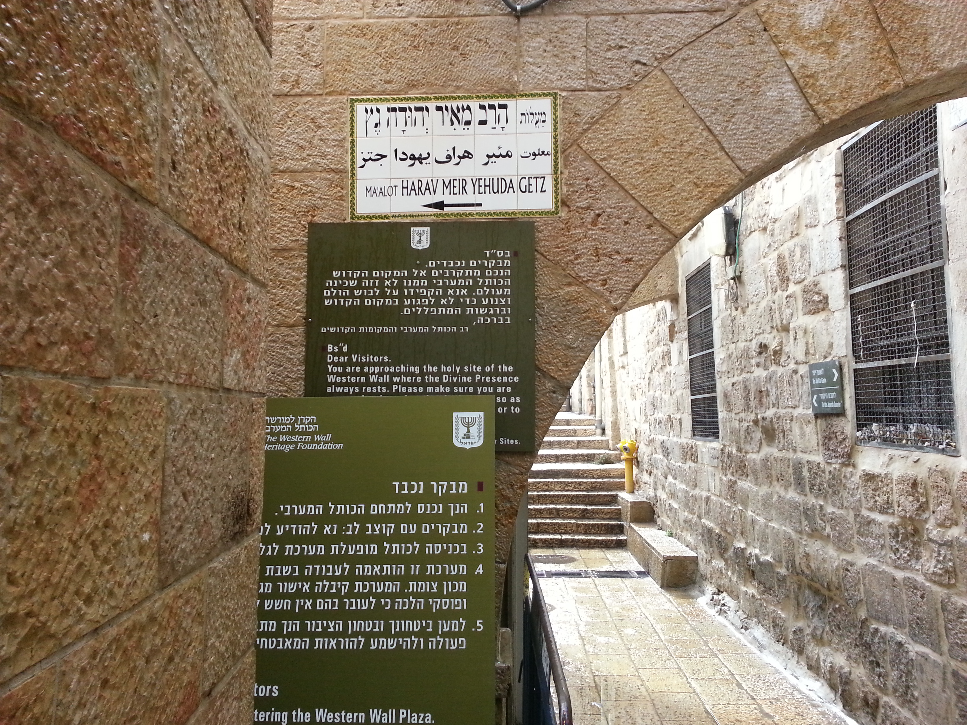 Old Jerusalem, Jewish Quarter, Ha-Kotel street, corner of Maalot Harav Meir Yehuda Getz (stairway to access to the western wall).